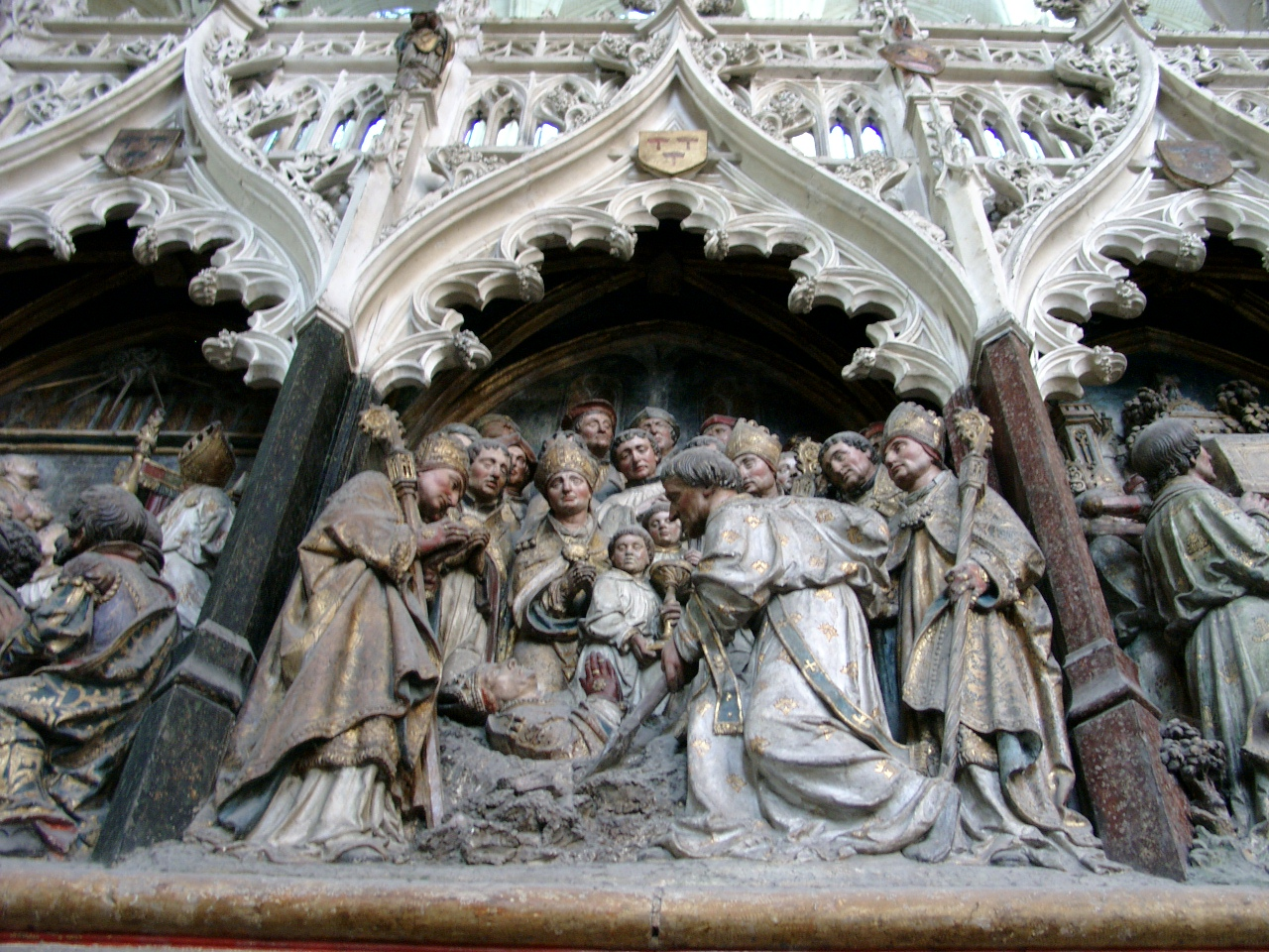 Tomb of St Firmin (details) - Cathedral of Amiens